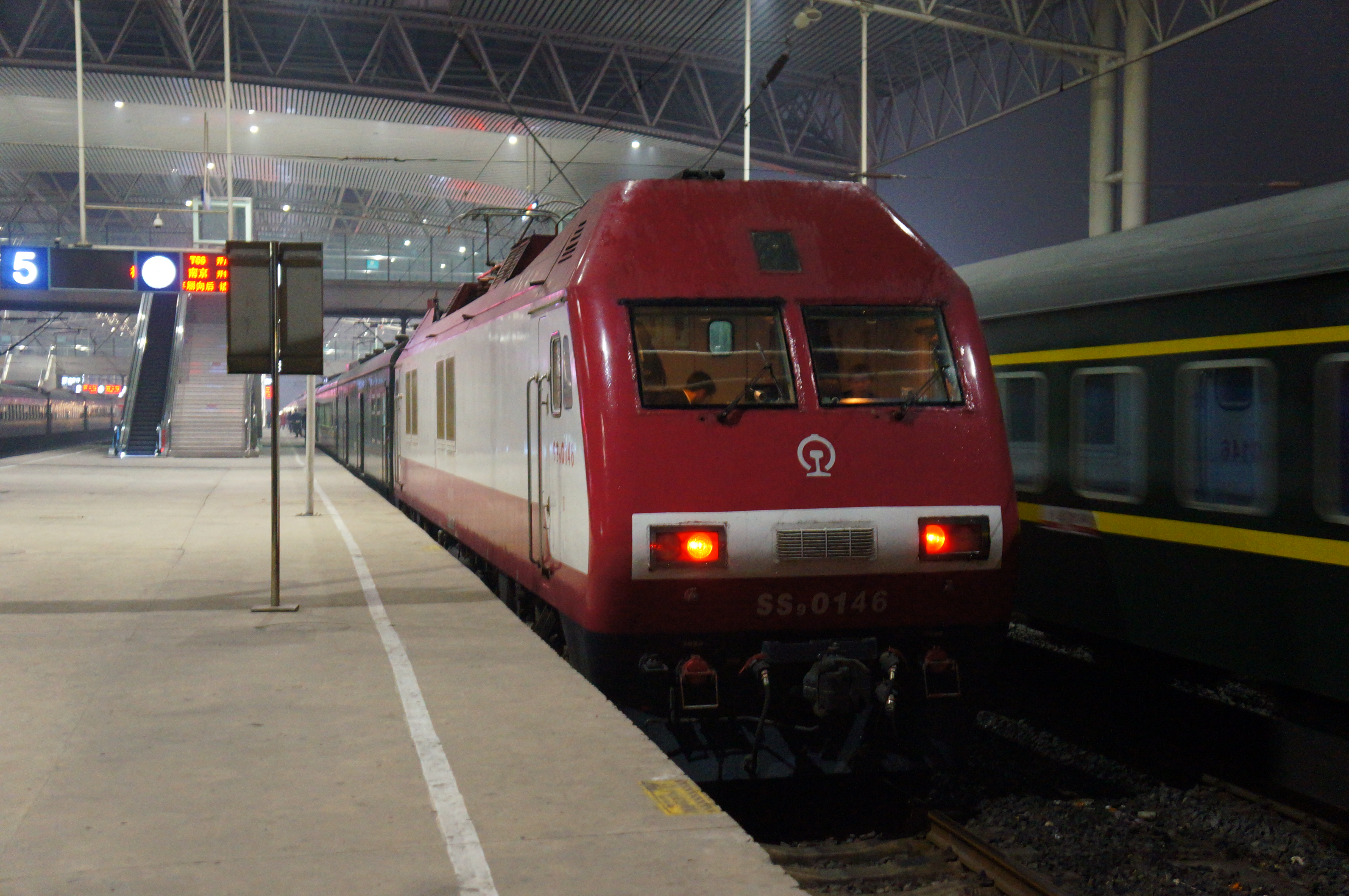 201812 SS9G-0146 hauls T66 at Bengbu Station